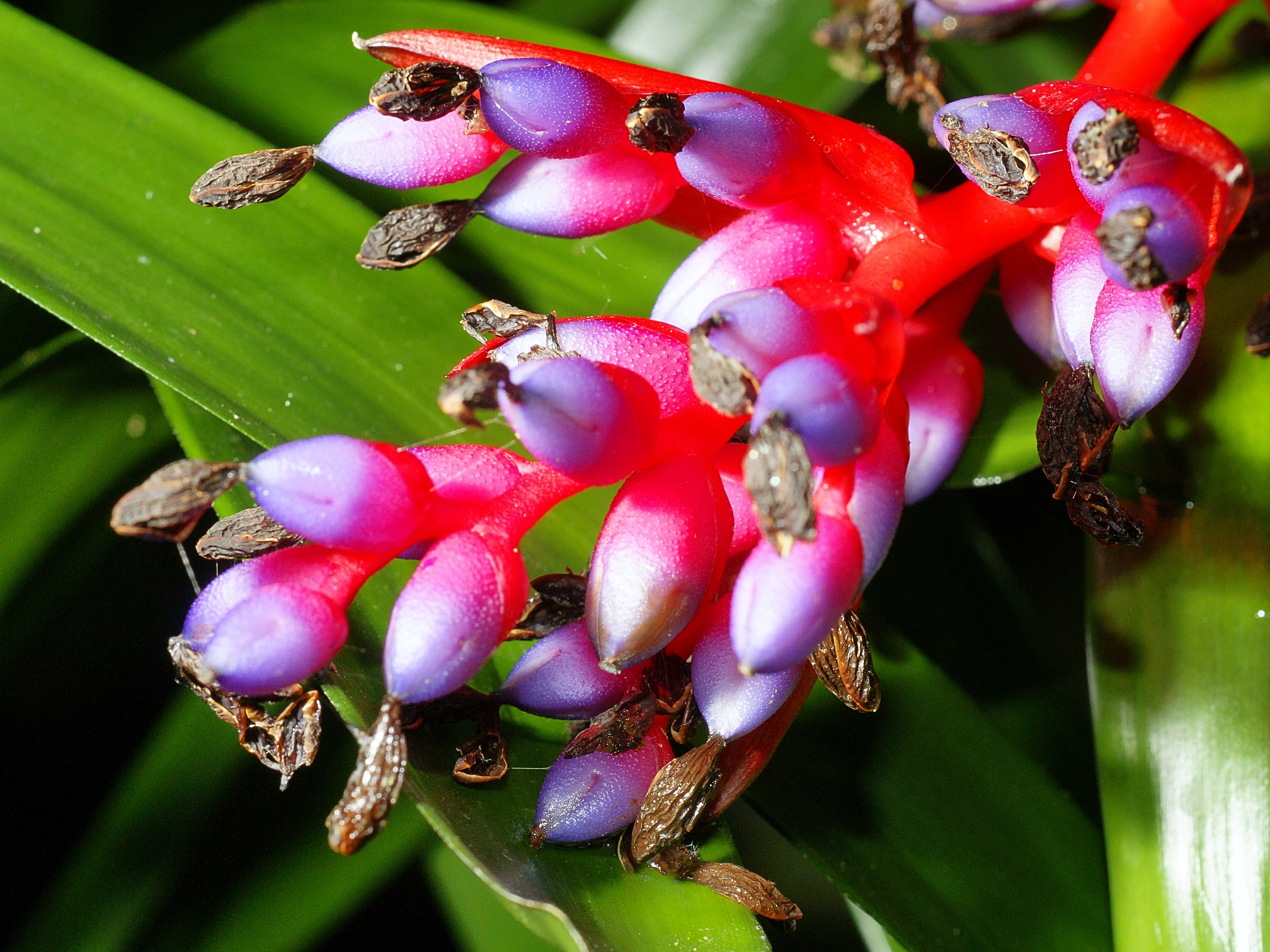 Aechmea weilbachii var. weilbachii f. pendula